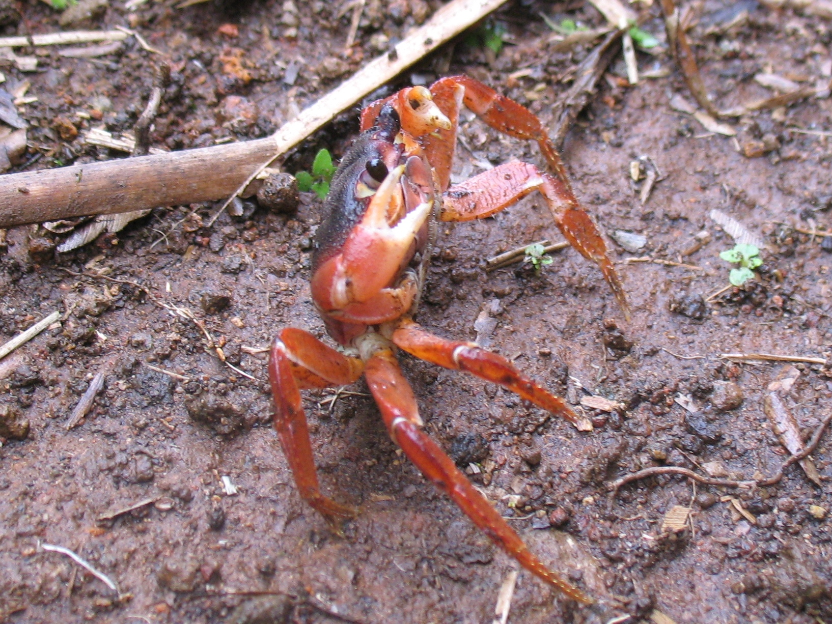 Purple morph of the land crab Johngarthia lagostoma (= Gecarcinus lagostoma) on Ascension Island